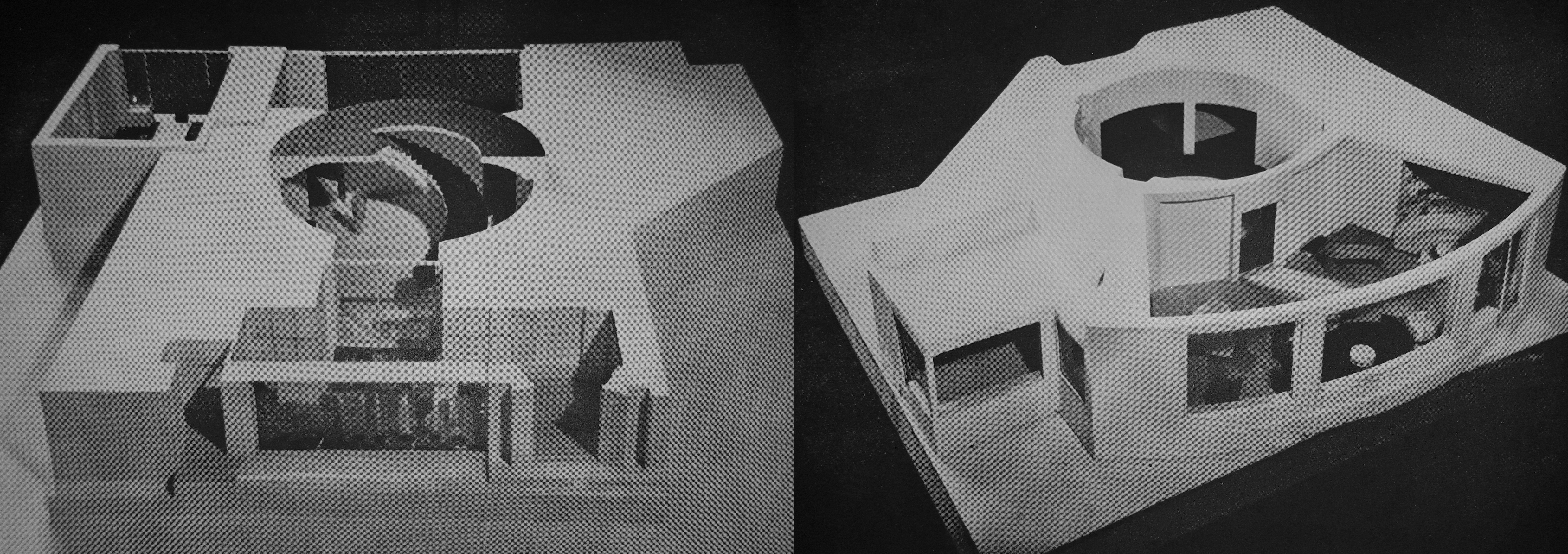 Model of proposed residence by Hugh T. Keyes